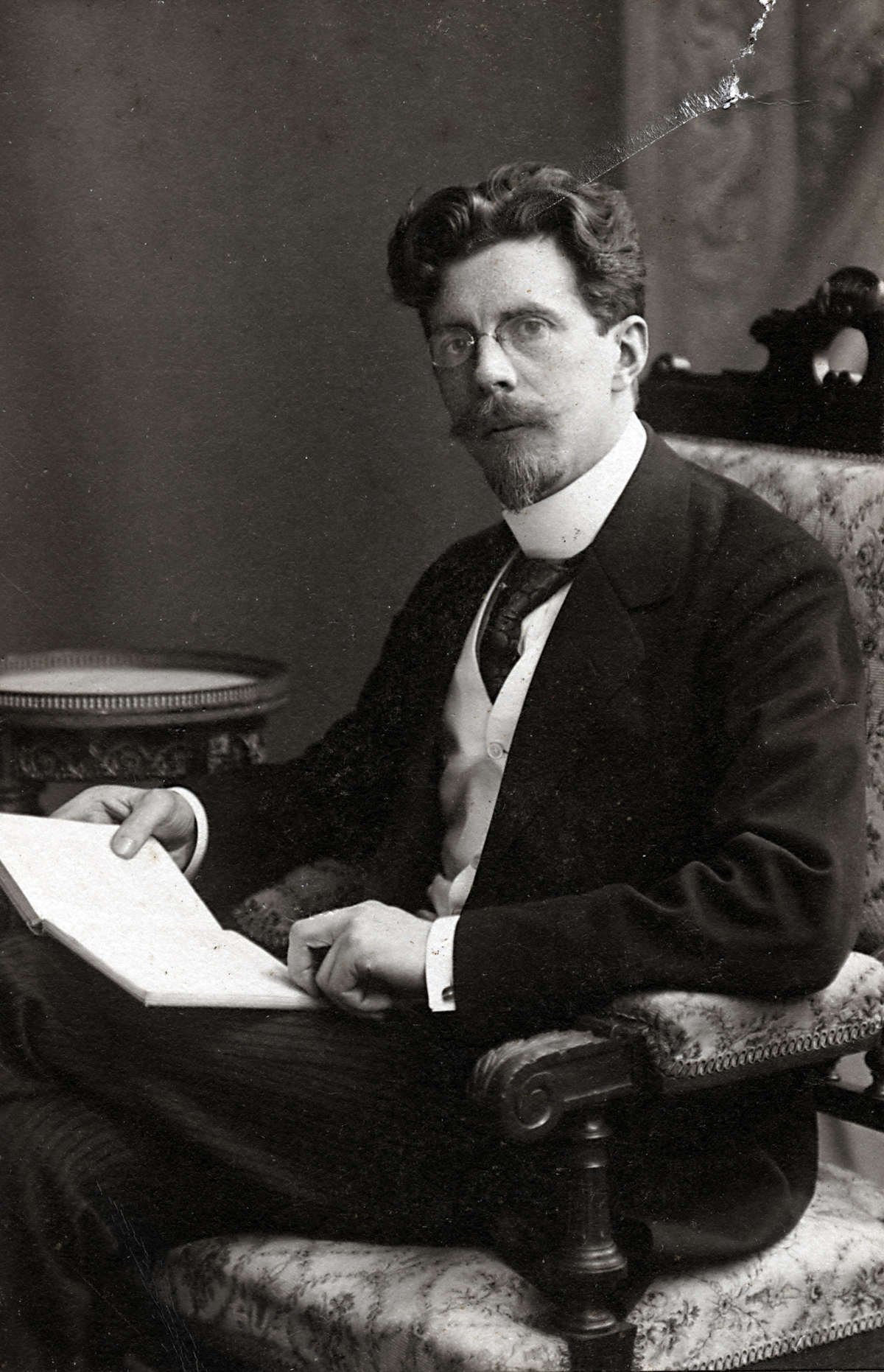 Parliamentarian from the Netherlands